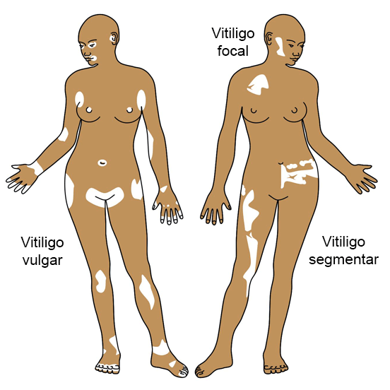 Vitiligo vulgar